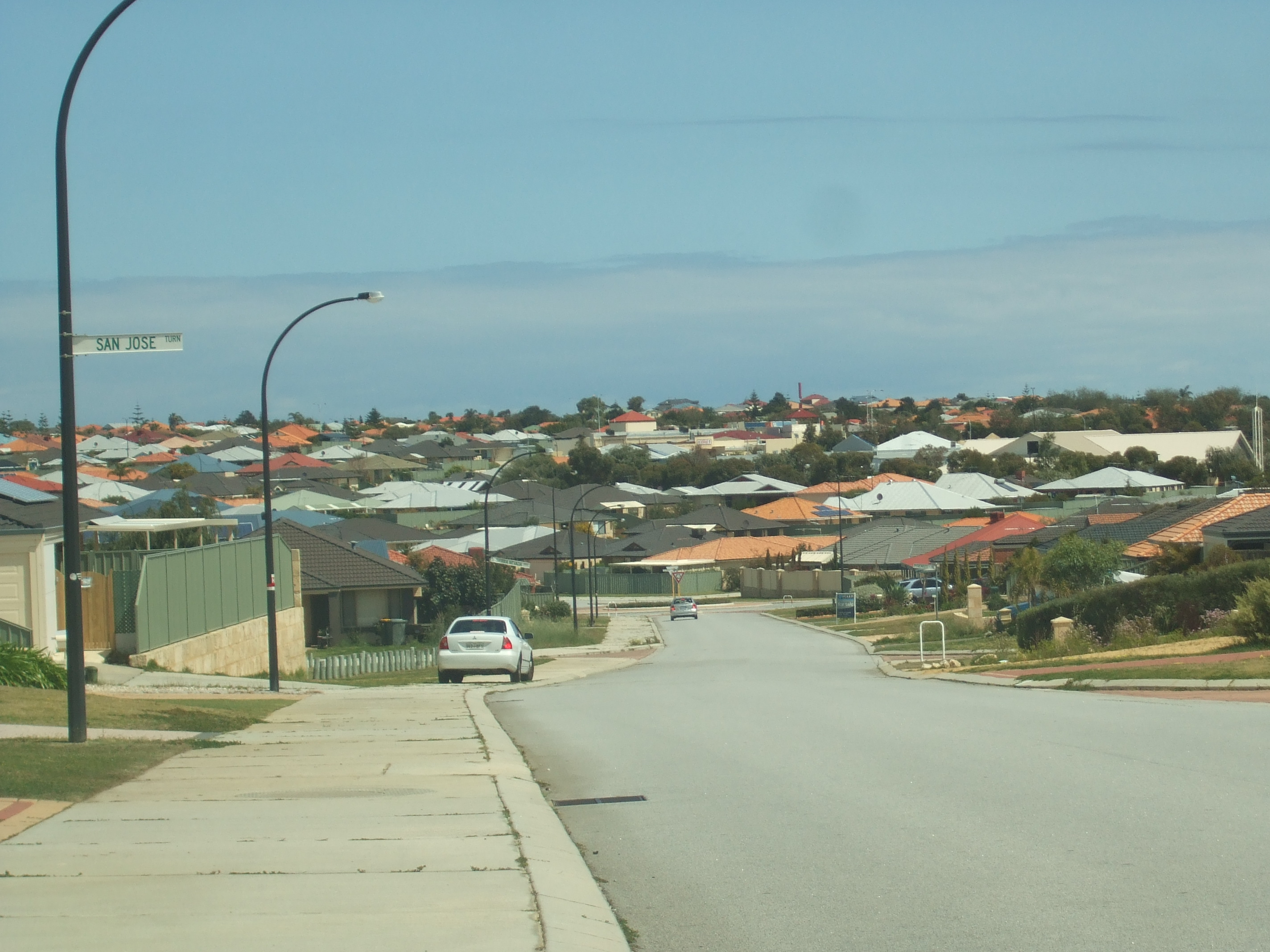 View west of Seagrove Boulevard, Merriwa, Western Australia. The Gull service station can be seen at the suburb's boundary, with the suburb of Quinns Rocks beyond.